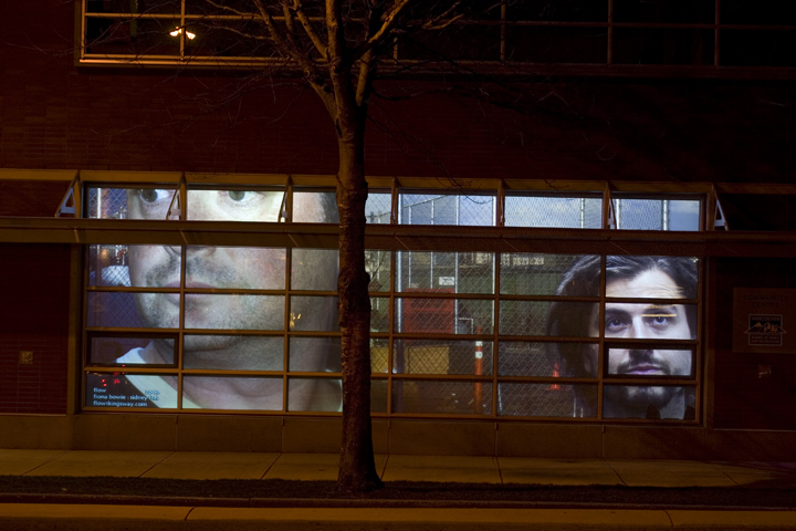 Image from "Flow".